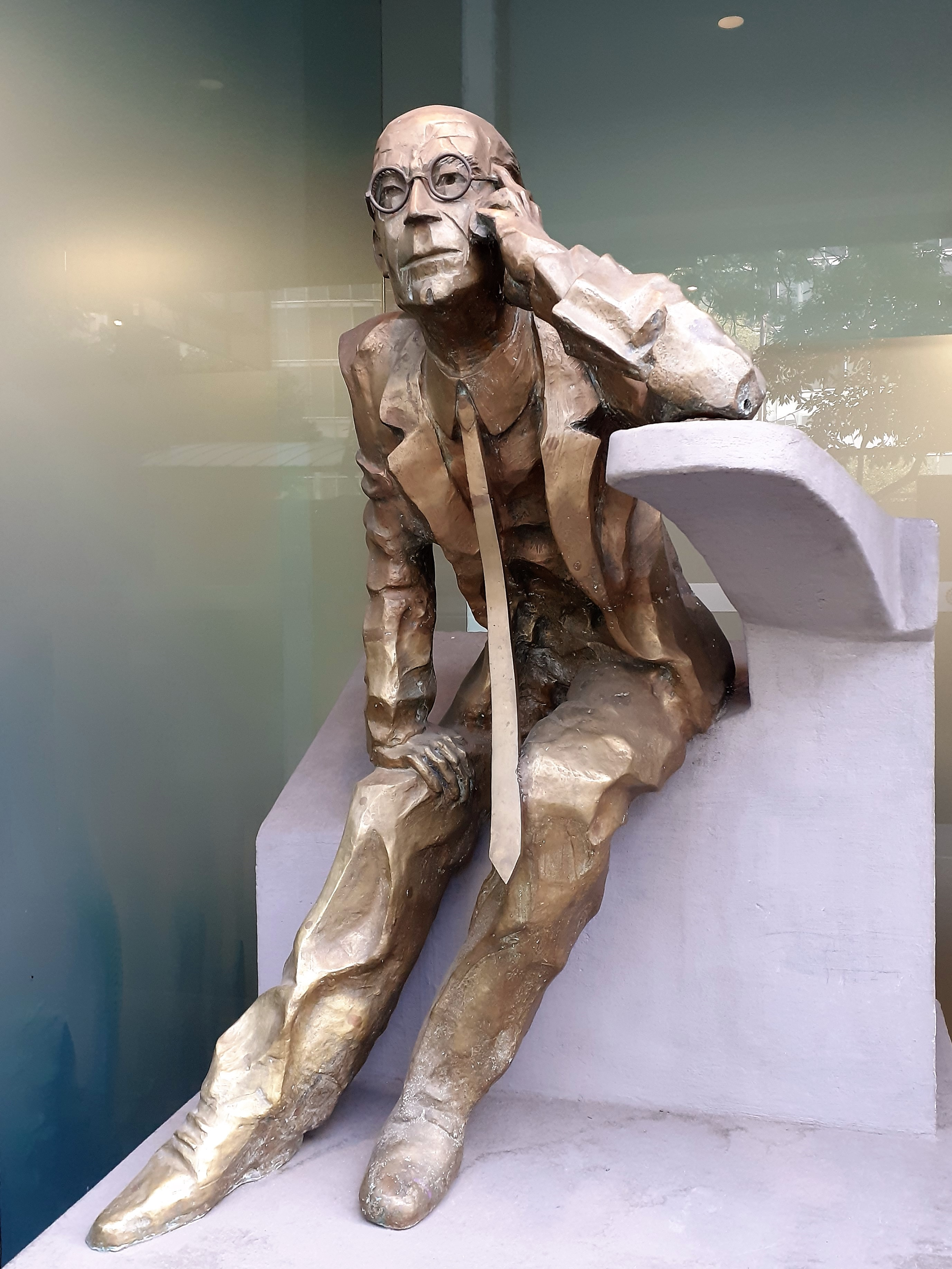 Sculpture representing physicist Manuel Sandoval Vallarta in the building of the National Council of Science and Technology of Mexico, in Avenida Insurgentes Sur 1582, alcaldía Benito Juárez, Mexico City.